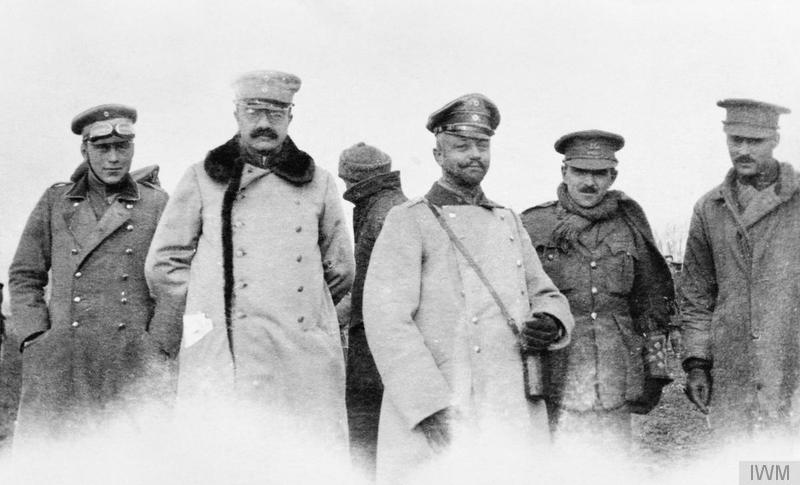 The Christmas Truce on the Western Front, 1914 British and German officers meeting in No-Man's Land during the unofficial truce. (British troops from the Northumberland Hussars, 7th Division, Bridoux-Rouge Banc Sector).